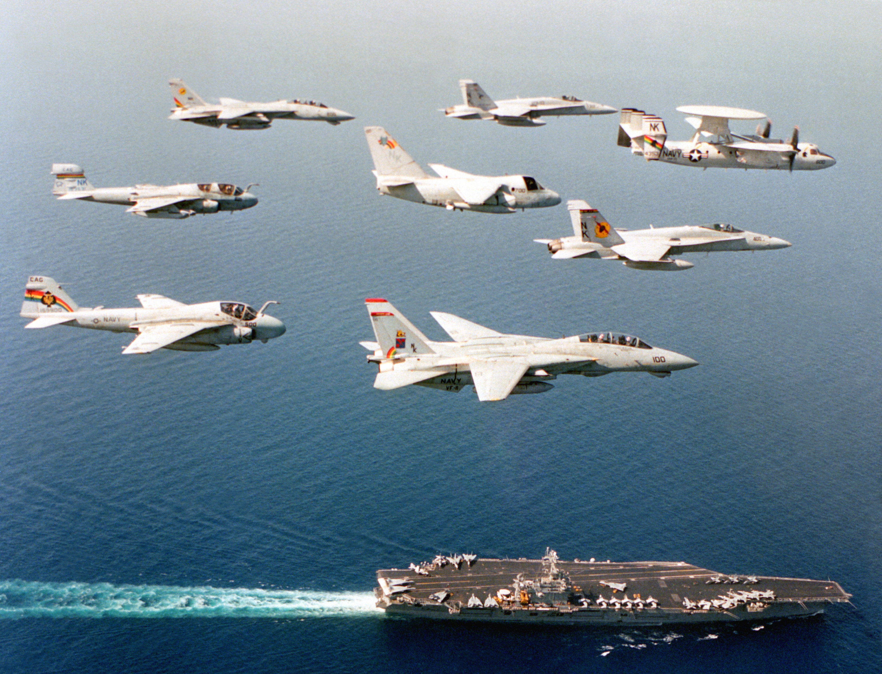 U.S. Navy aircraft assigned Carrier Air Wing 14 (CVW-14) fly over the aircraft carrier USS Carl Vinson (CVN-70) in the Persian Gulf on 1 May 1994. CVW-14 was assigned to the Carl Vinson for a deployment to the Western Pacific and the Indian Ocean from 17 February to 17 August 1994. The following aircraft are visible: a Grumman F-14D Tomcat from Fighter Squadron 11 (VF-11) "Red Rippers" and from VF-31 Tomcatters; a Lockheed S-3B Viking from Anti-Submarine Squadron 35 (VS-35) "Blue Wolves"; a McDonnell Douglas F/A-18C(N) Hornet from Strike Fighter Squadron 25 (VFA-25) "Fist of the Fleet" and from VFA-113 "Stingers"; a Grumman EA-6B Prowler from Tactical Electronic Warfare Squadron 139 (VAQ-139) "Cougars"; a Grumman E-2C Hawkeye from Carrier Airborne Early Warning Squadron 113 (VAW-113) "Black Eagles"; a Grumman A-6E Intruder from Attack Squadron 196 (VA-196) "Main Battery".